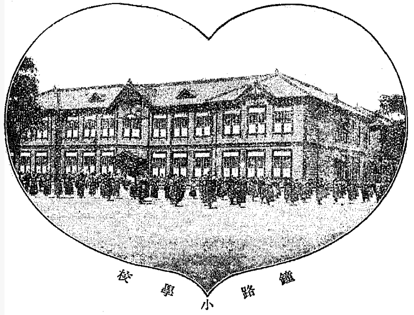 Jongno Primary School in Gyeongseong